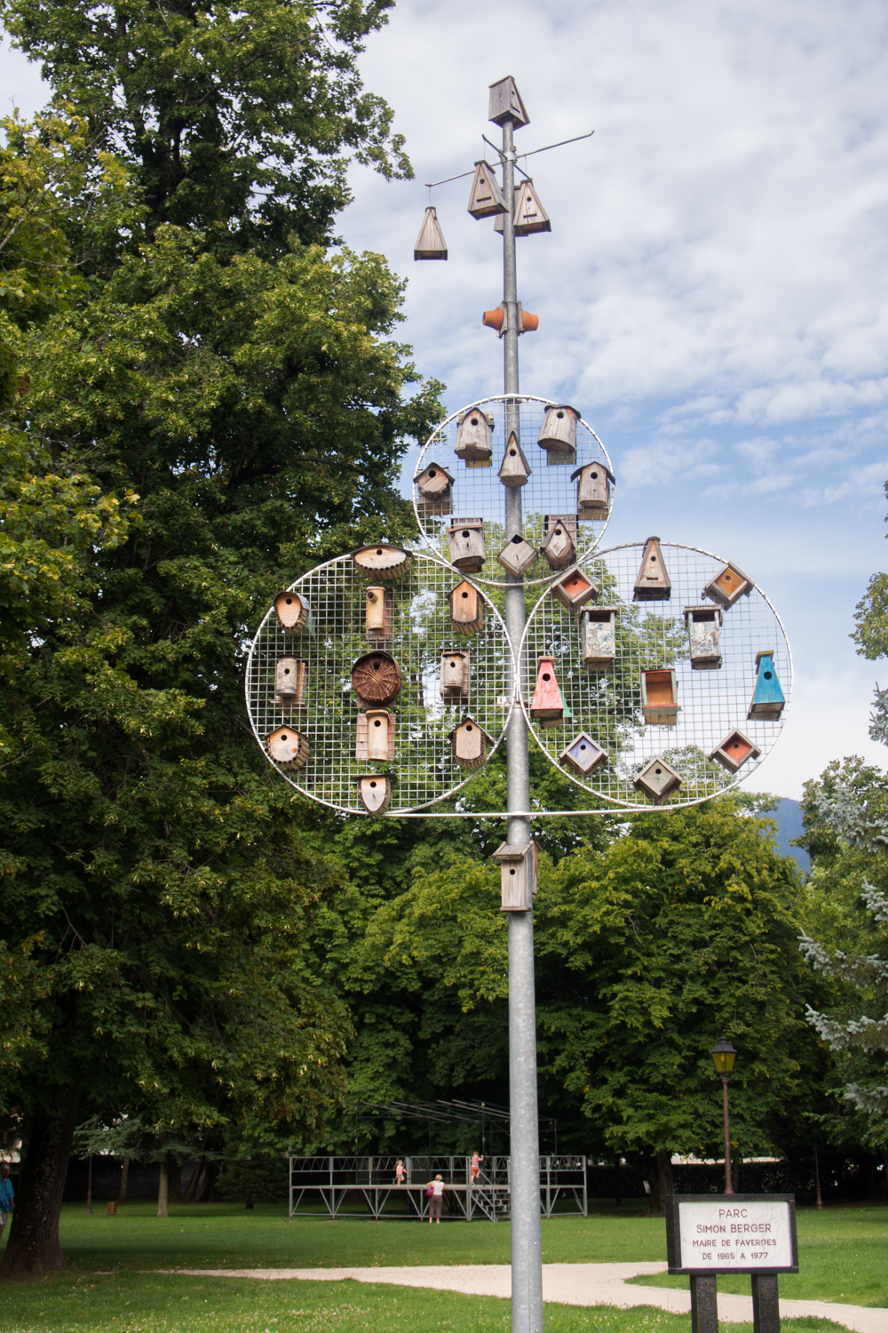 Bird's houses tree installed in the parc Simon Berger park of the French city of Faverges, in Haute-Savoie.